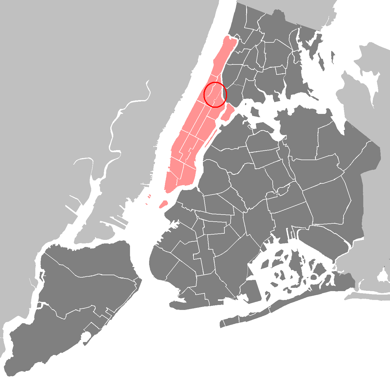 Maps of New York City: New York City - Manhattan - Harlem.PNG